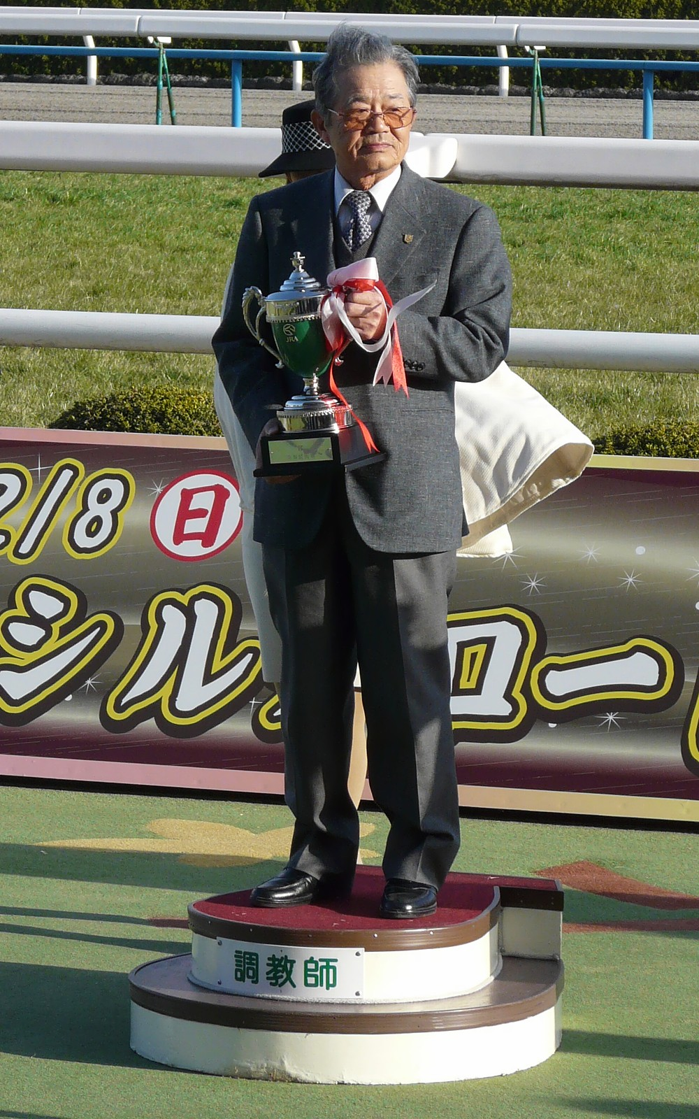 Akihiko-Nomura20090208